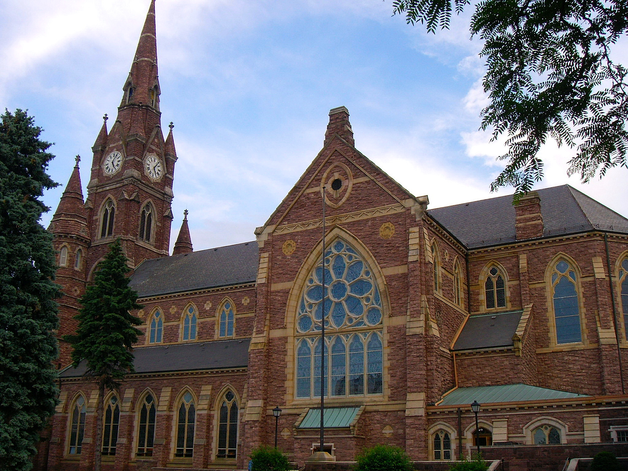 This photograph of St Peter Cathedral in Erie, Pennsylvania was taken on 4 June 2007 by Pat Noble (self).